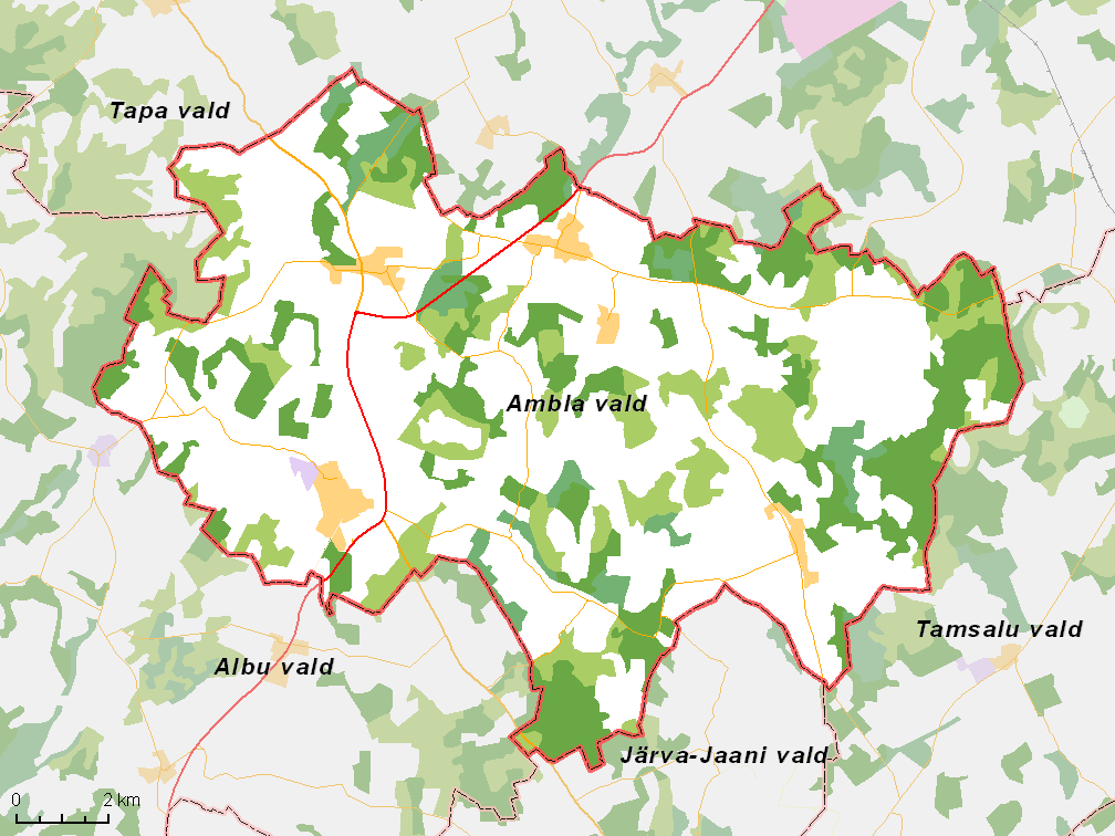 Map of municipality in Estonia